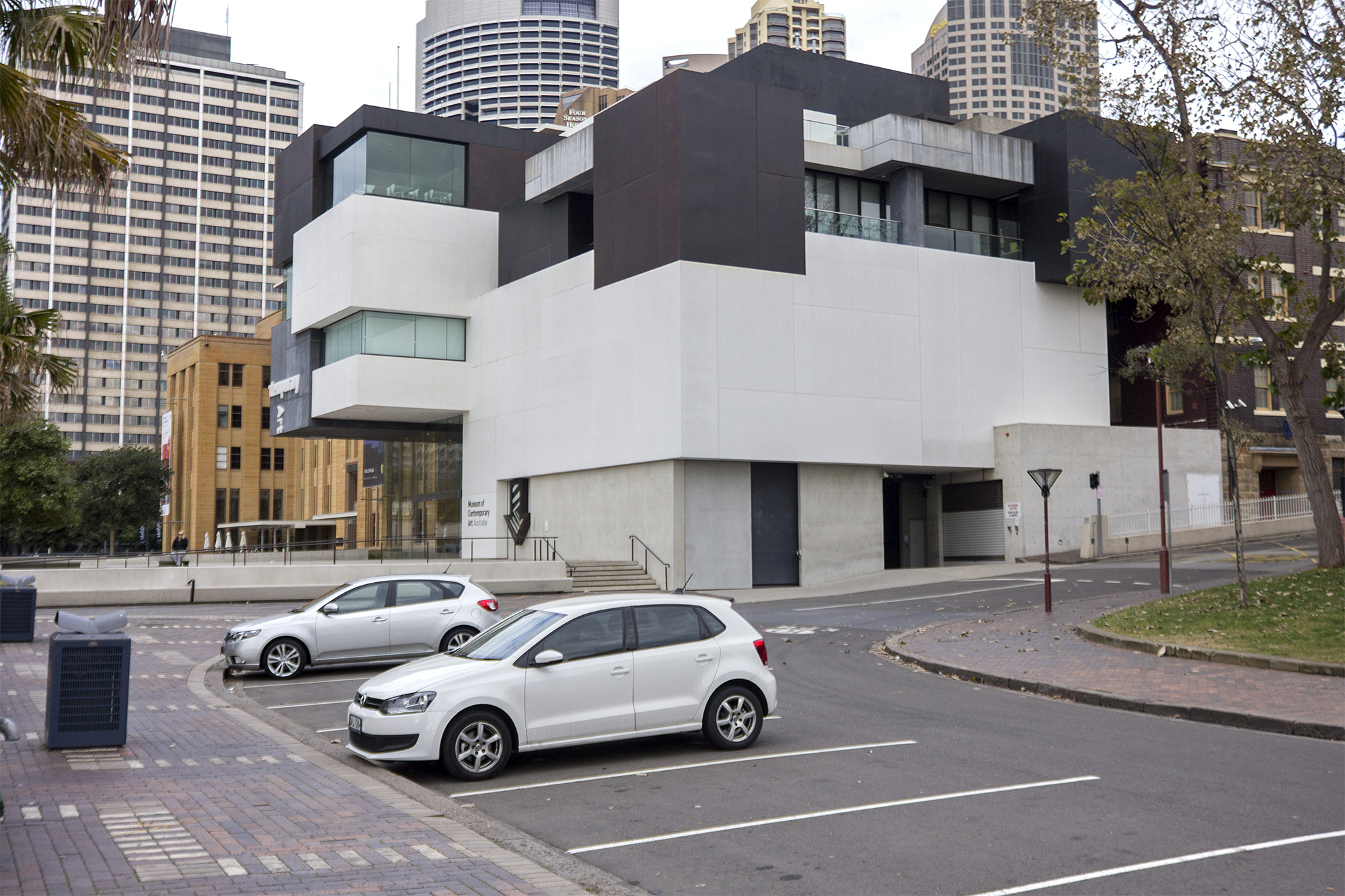 Museum of Contemporary Art Australia at The Rocks, New South Wales.